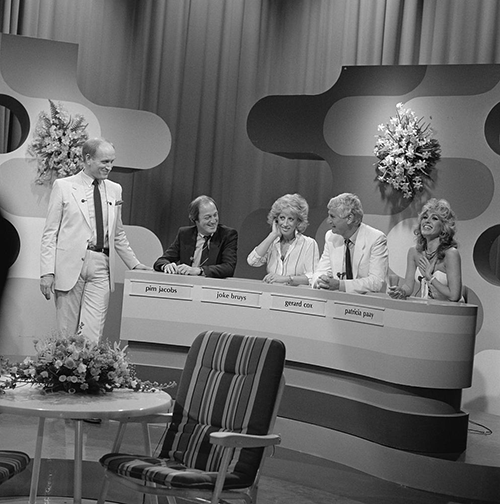 Fred Oster, Pim Jacobs, Joke Bruys, Gerard Cox en Patricia Paay in AVRO's Wiekentkwis